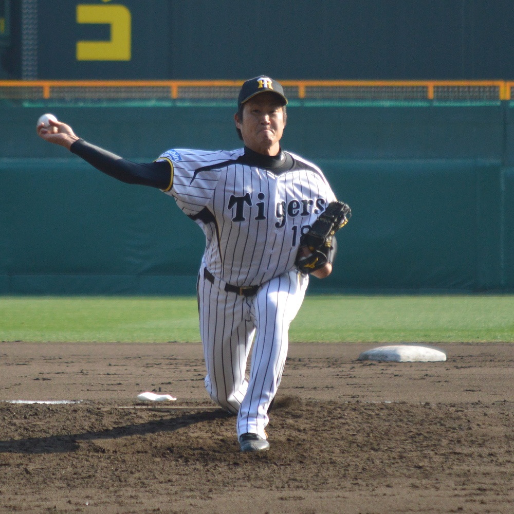 Kazuhito Futagami, pitcher of the Hanshin Tigers, at Hanshin Koshien Stadium.